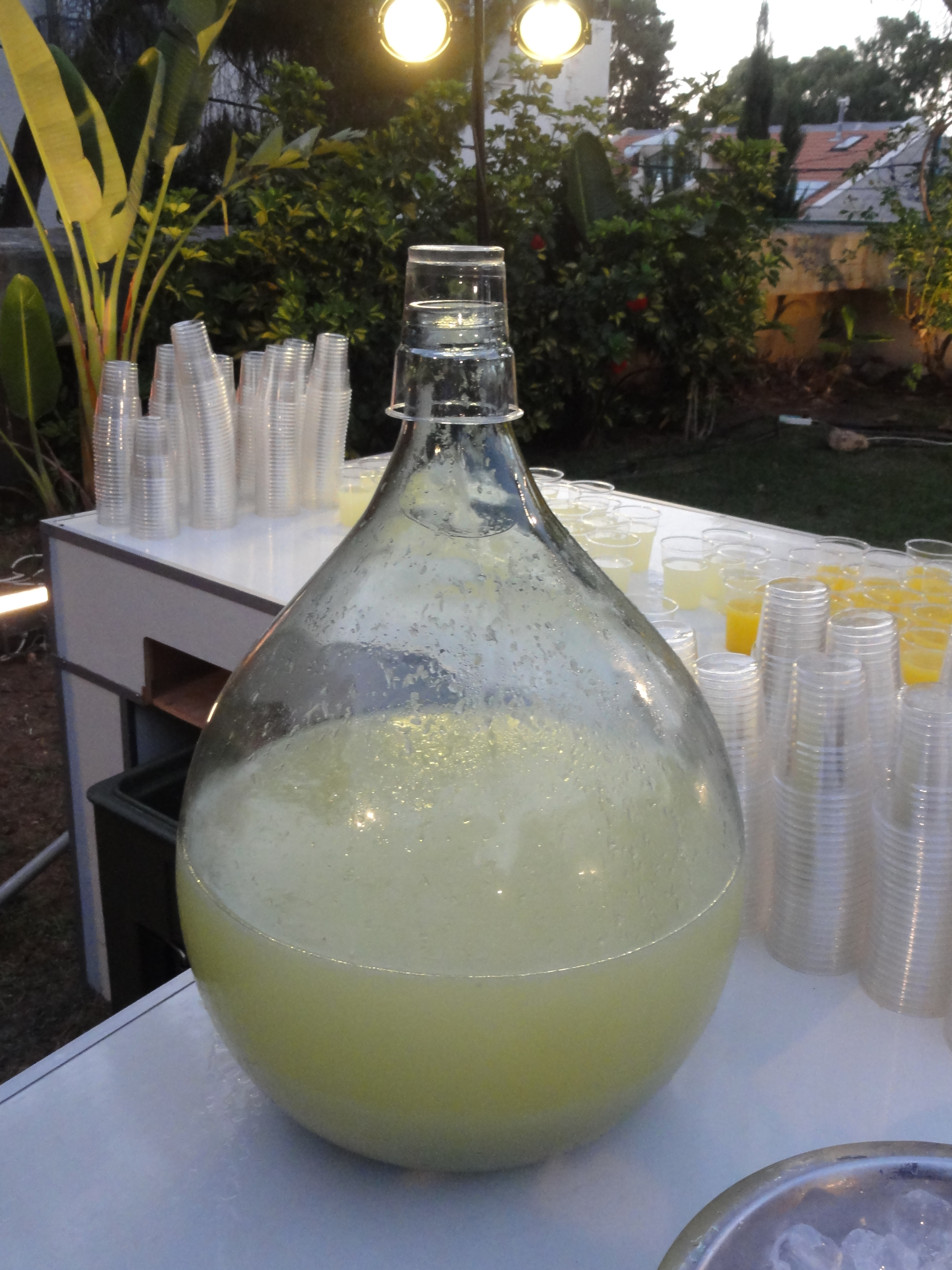 Large Glass container with grapefruit juice